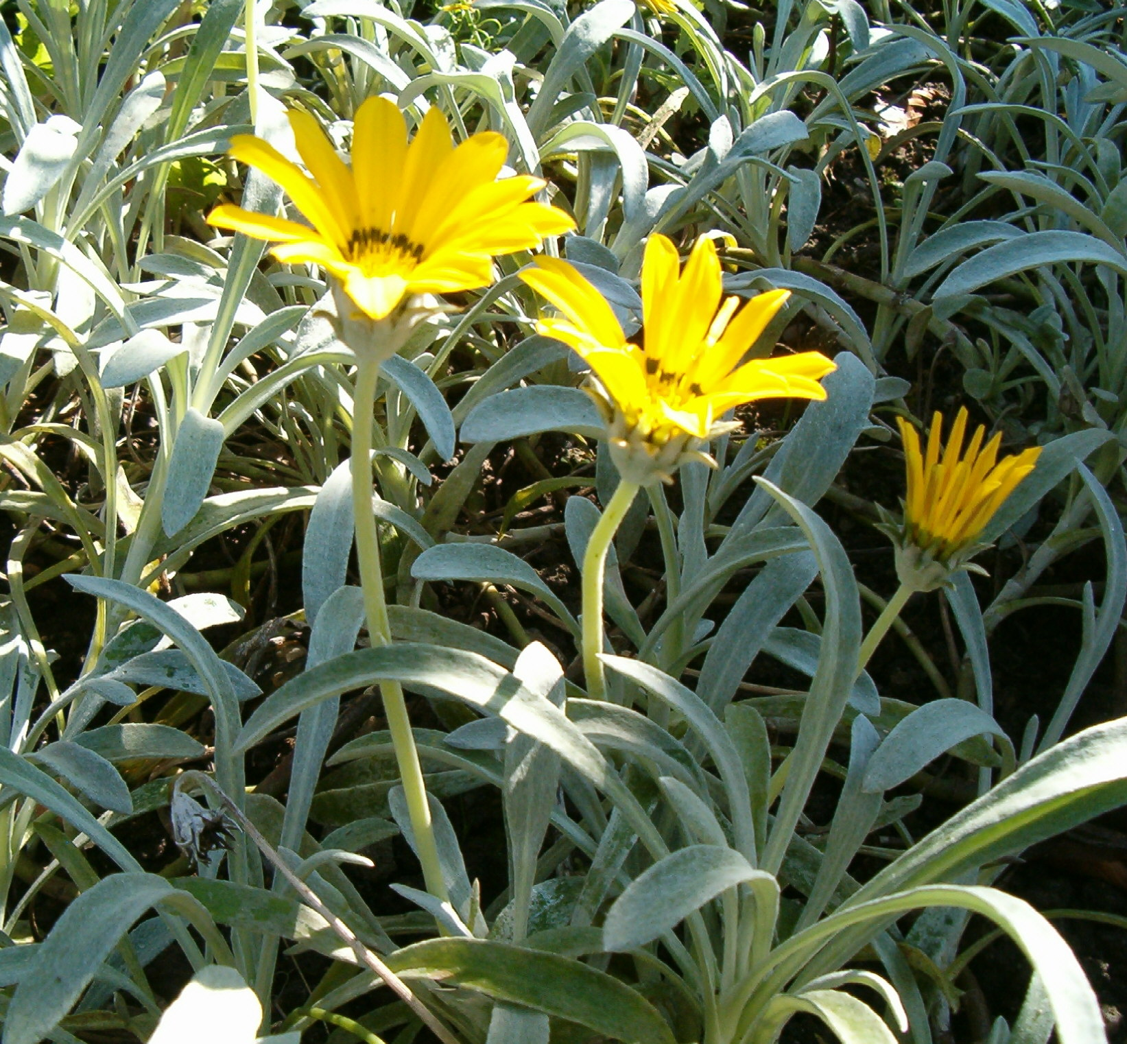 Location: Botanical Gardens Berlin Habitus and Inflorescences